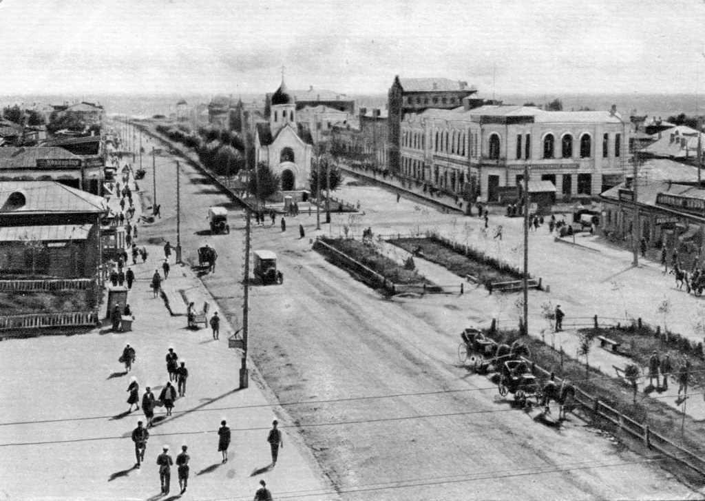 Saint Nicolas chapel in Novonikolaevsk (now Novosibirsk), destructed in 1930. View from the roof of "Lenin's house" built in 1925.